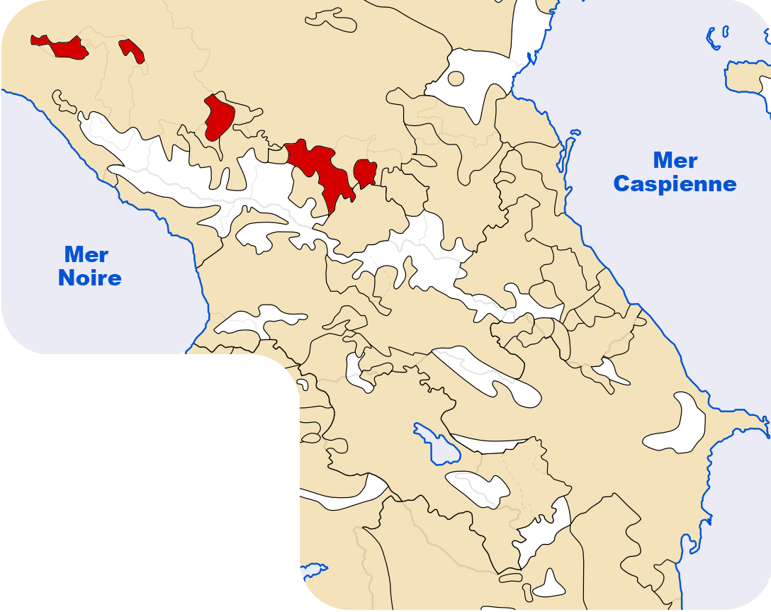 Location map of the Circassians/Adyghe (broader sense).